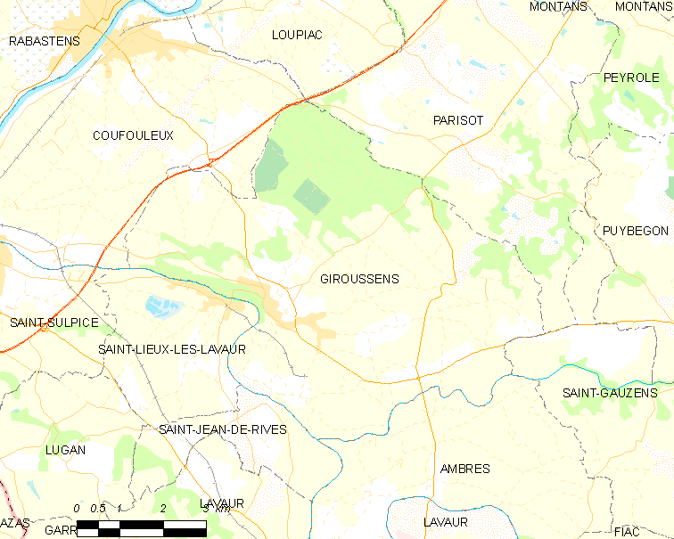 Map of French municipality Giroussens